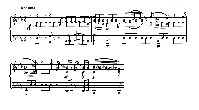 W.A.Mozart, symphony #40, part II, first theme (piano arrangement)